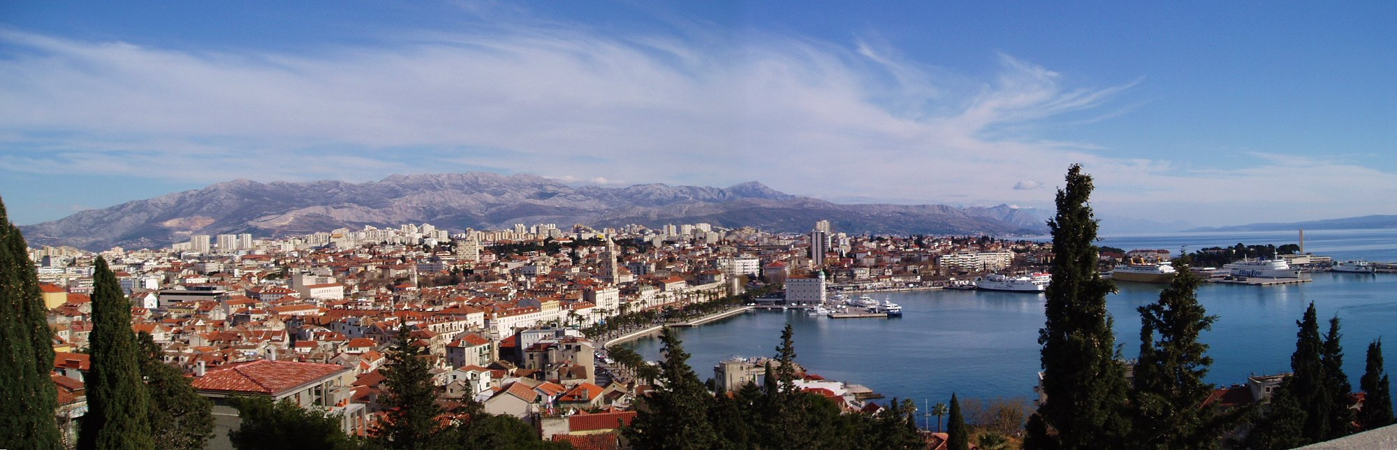 City of Split panorama, from Marjan hill. Authors: Zoran Knez & Dražen Radujkov